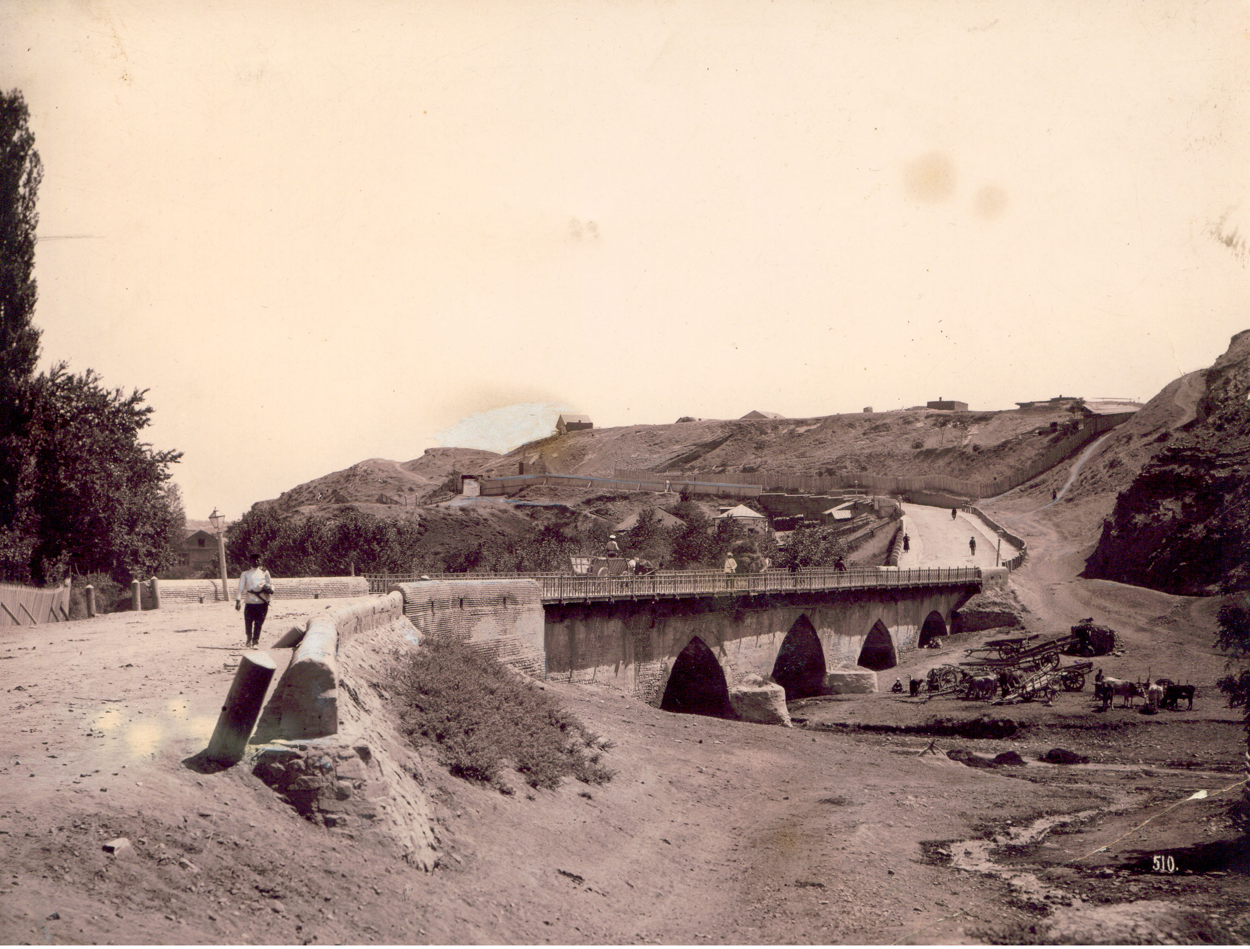 Tiflis. Old Vera bridge (Bahbuda's bridge)